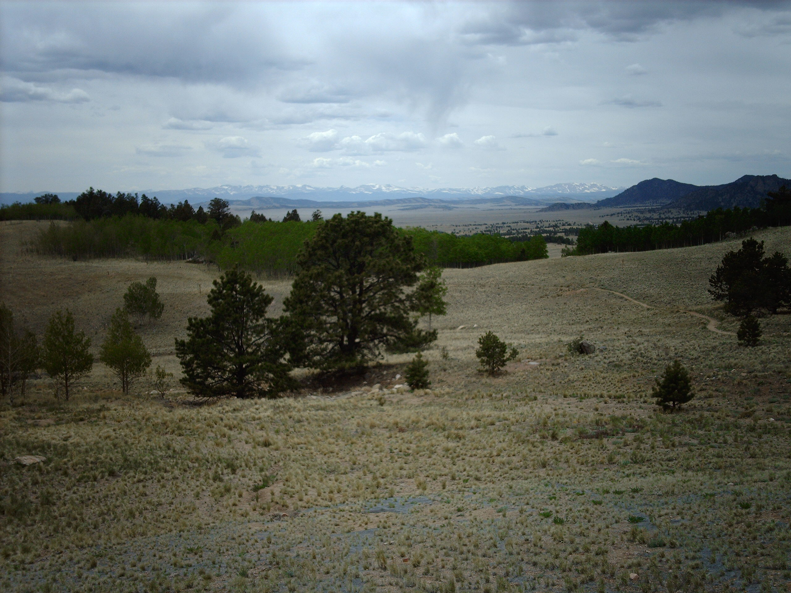 Wilkerson Pass view towards South Park